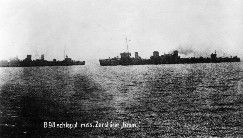 German torpedoboat "B 98" towing russian destroyer "Grom"